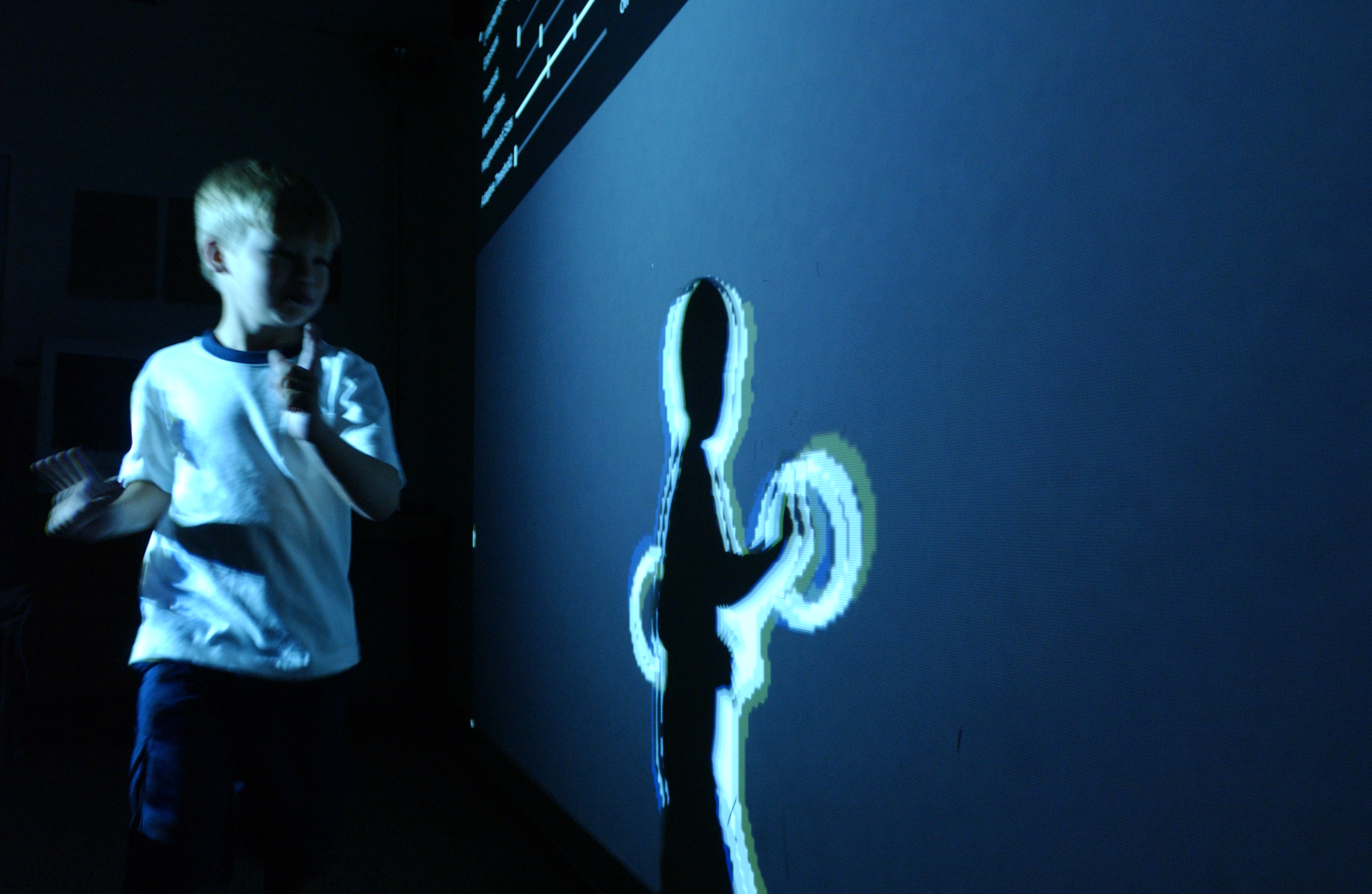 Greg Roberts shot this photo of his son while running a beta version of a computer vision algorithm trained to detect hands.